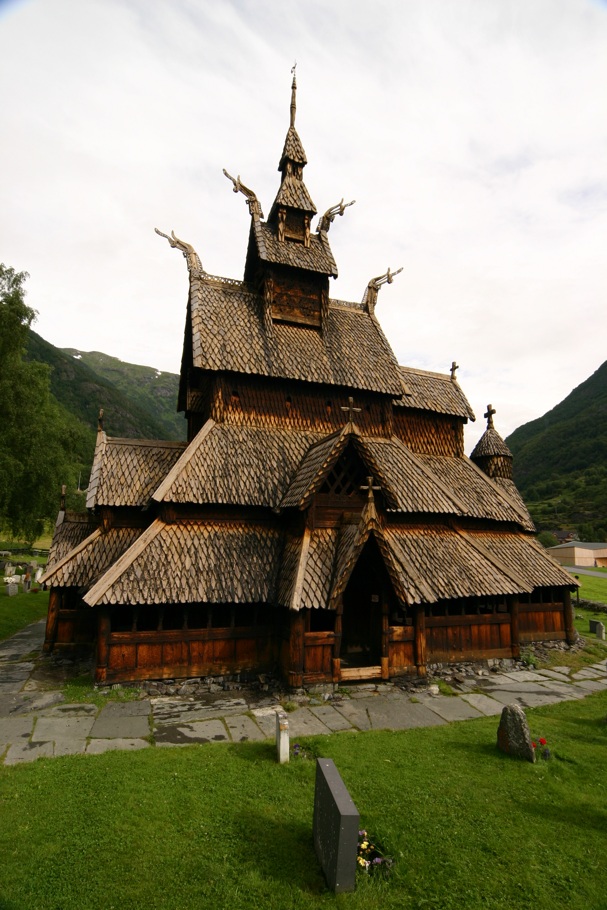 Picture taken by myself (Glaurung) in July 2005